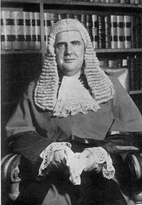 Sir Gerard Howe, Kt., Q.C. (1899-1955), Chief Justice of Hong Kong from 1951 to 1955.